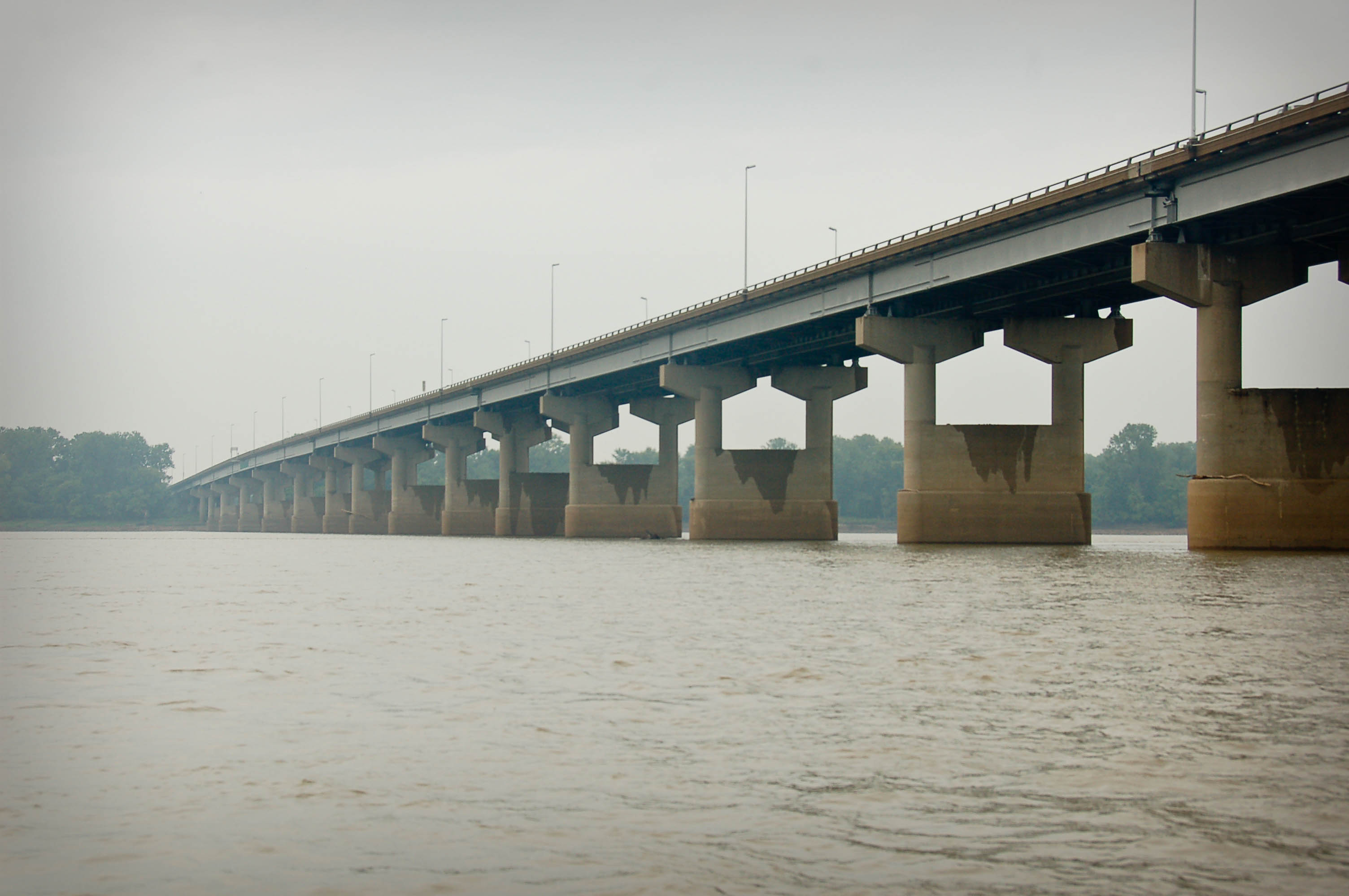 Yawn. I gained a new appreciation of bridges and their architecture, and these utilitarian ones were always a big let down.